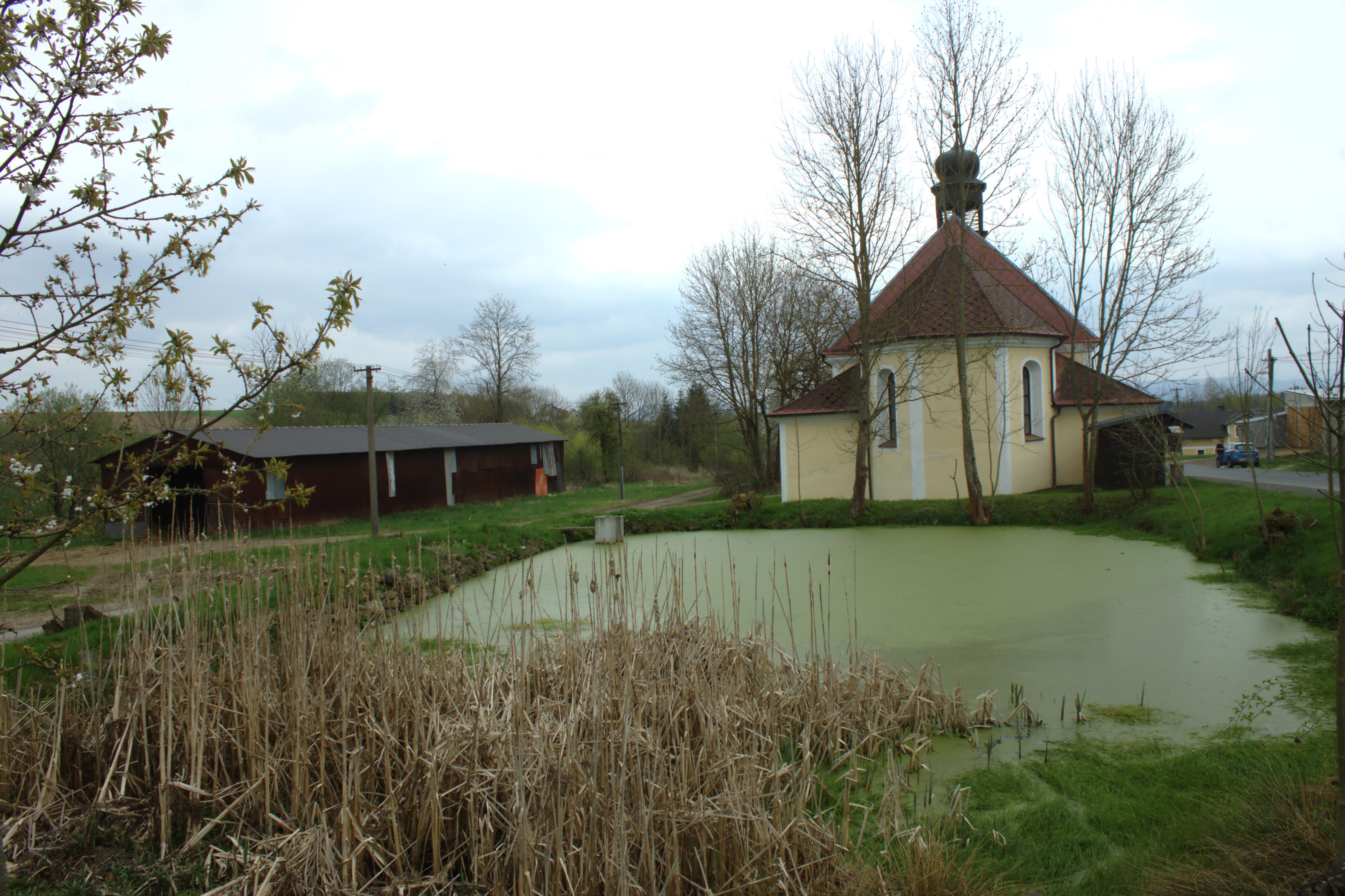 A pond in the village of Maxov, Plzeň Region, CZ